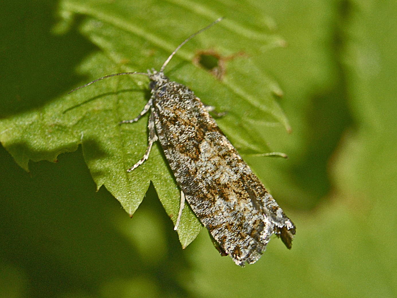 Zeiraphera griseana. La Thuile, Aosta, Italy